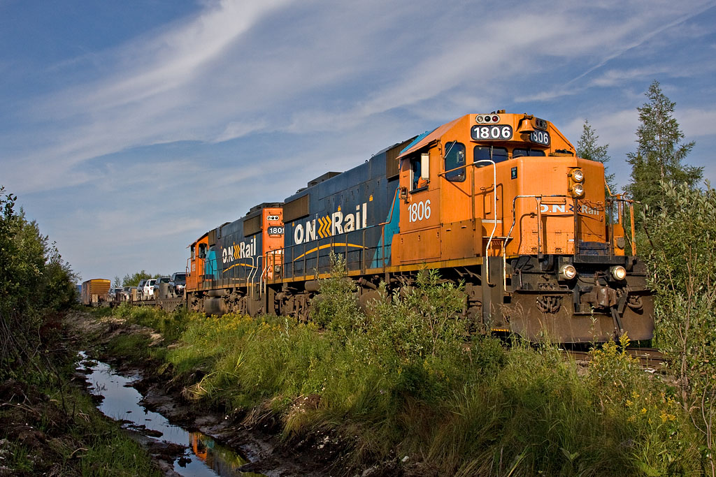 Ontario Northland's Polar Bear Express train just south of Moosonee on 2008 August 15th showing locomotives and chain cars for carrying cars and light trucks.